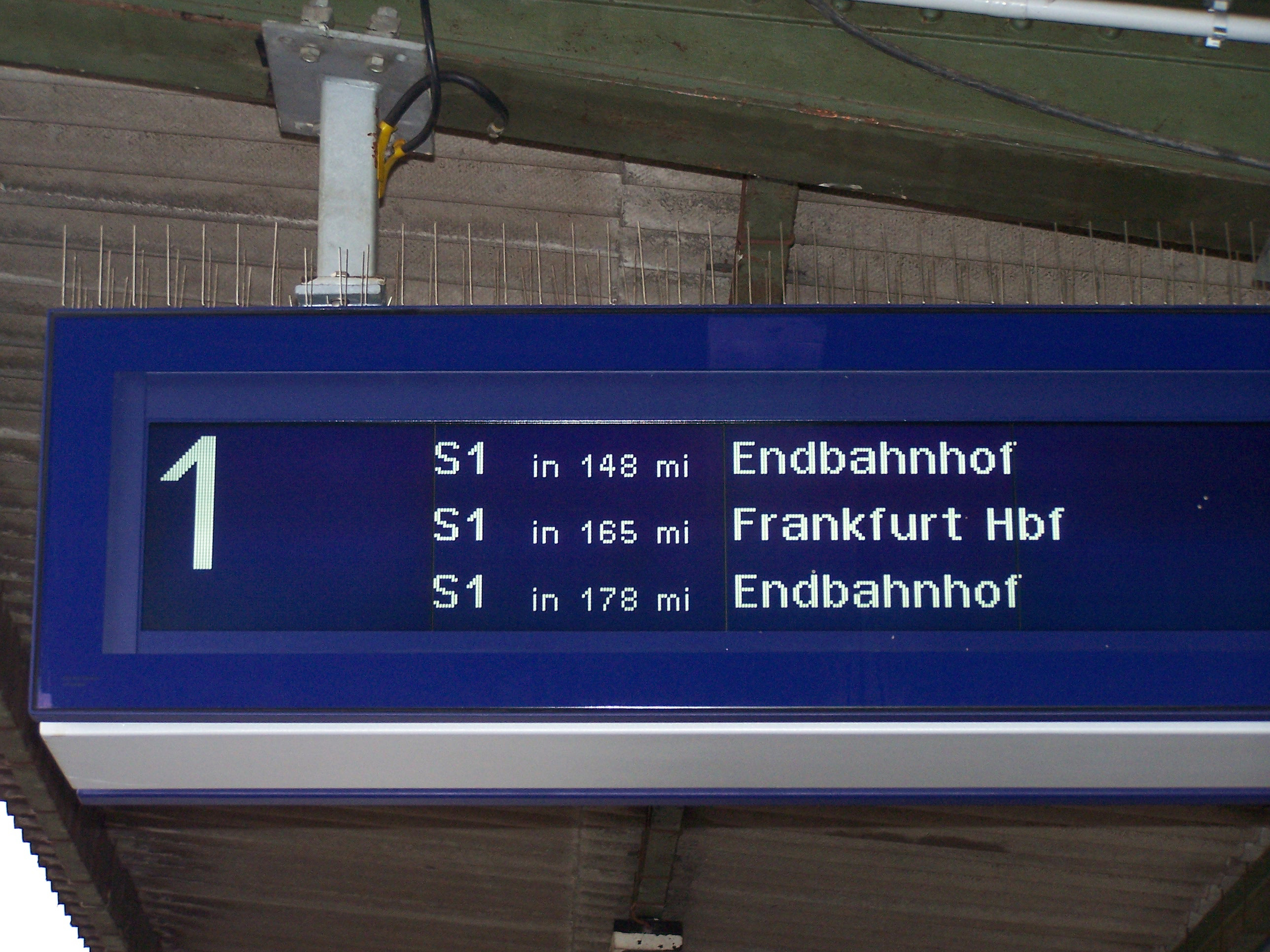 Passenger information display in Frankfurt Höchst station in Frankfurt am Main-Höchst in November 2009